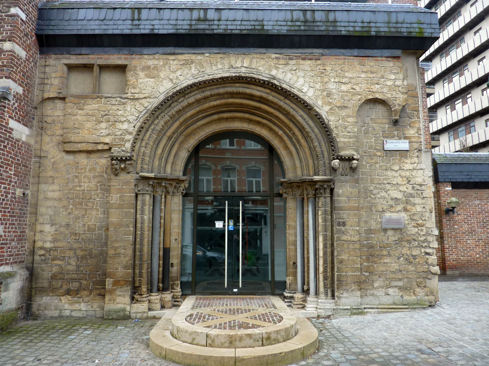 Sint-Elisabethgasthuis, Leuven